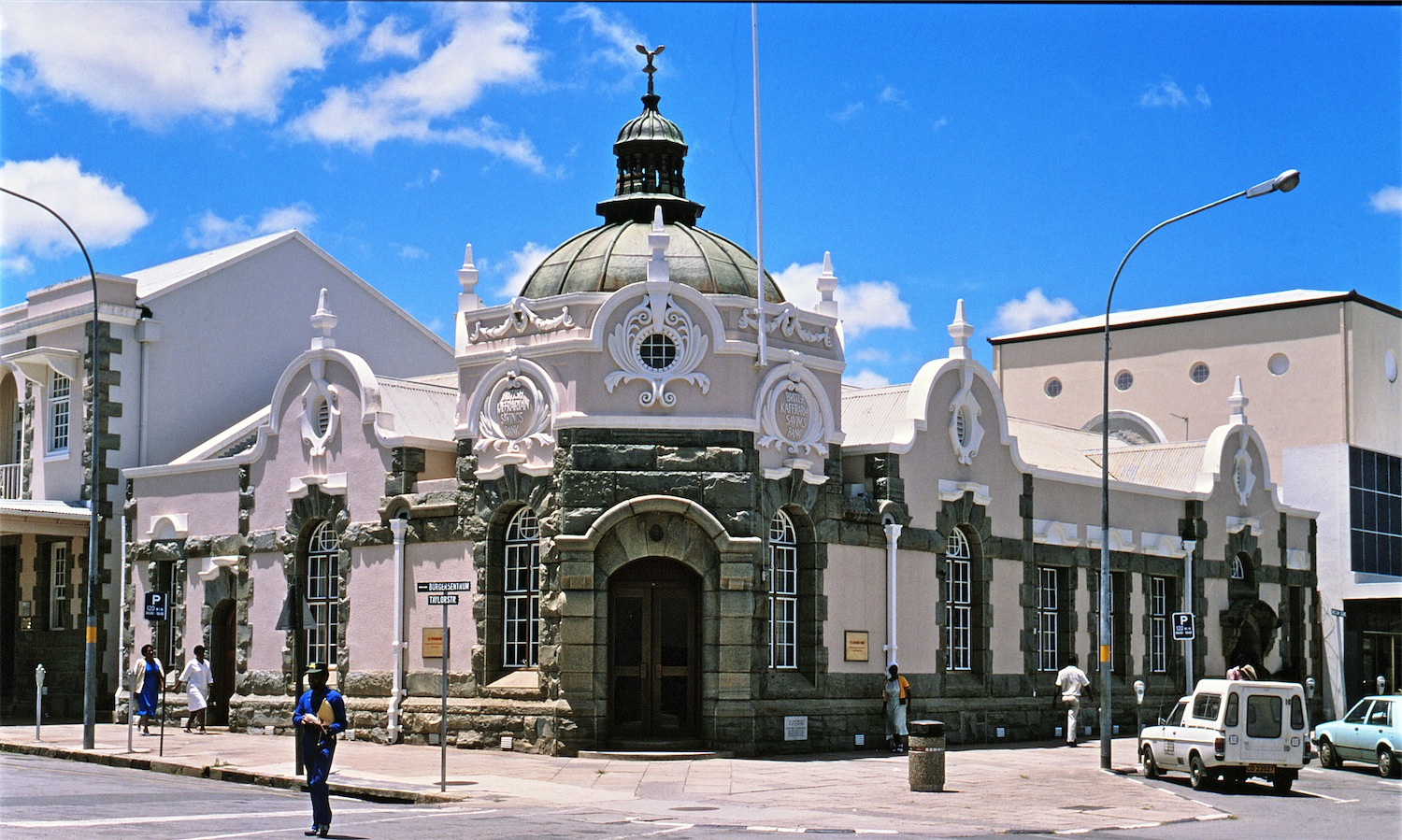 This media shows a South African Protected Site with SAHRA file reference 9/2/050/0016.